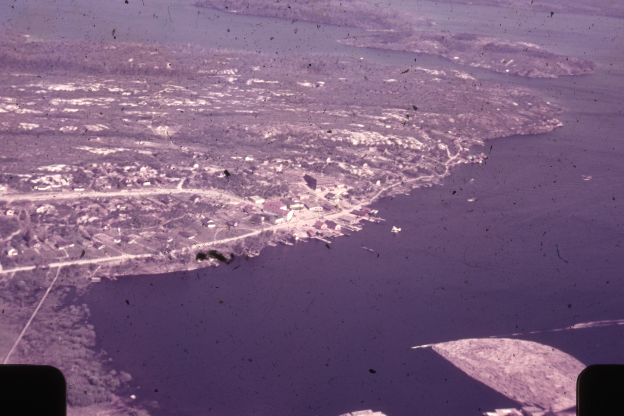 Aerial View of Red Lake, Ontario , Canada 1936